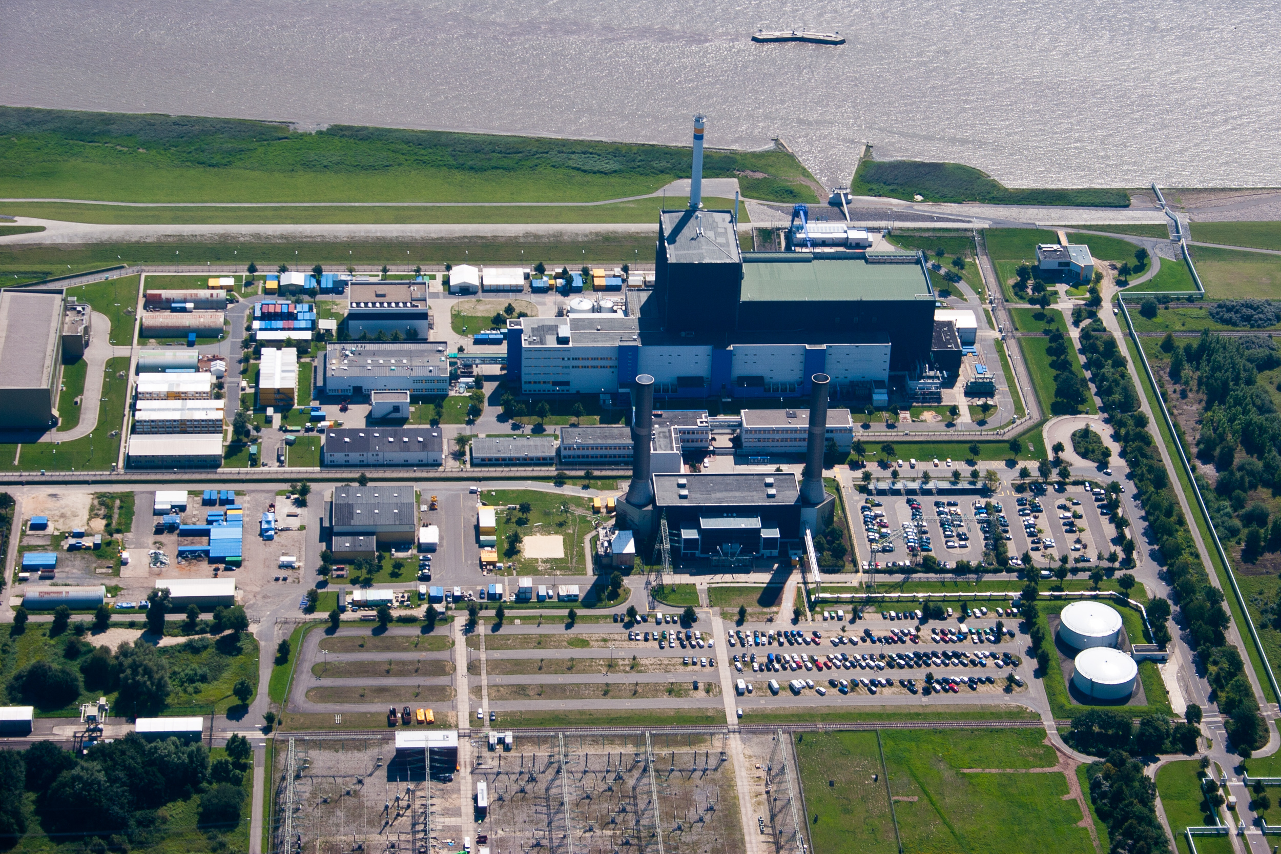 Brunsbüttel Nuclear Power Plant and substation, aerial photography